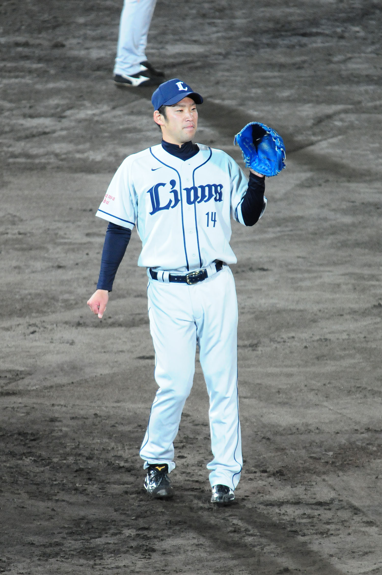 Tatsushi Masuda, pitcher of the Saitama Seibu Lions, at Akita Prefectural Baseball Stadium.